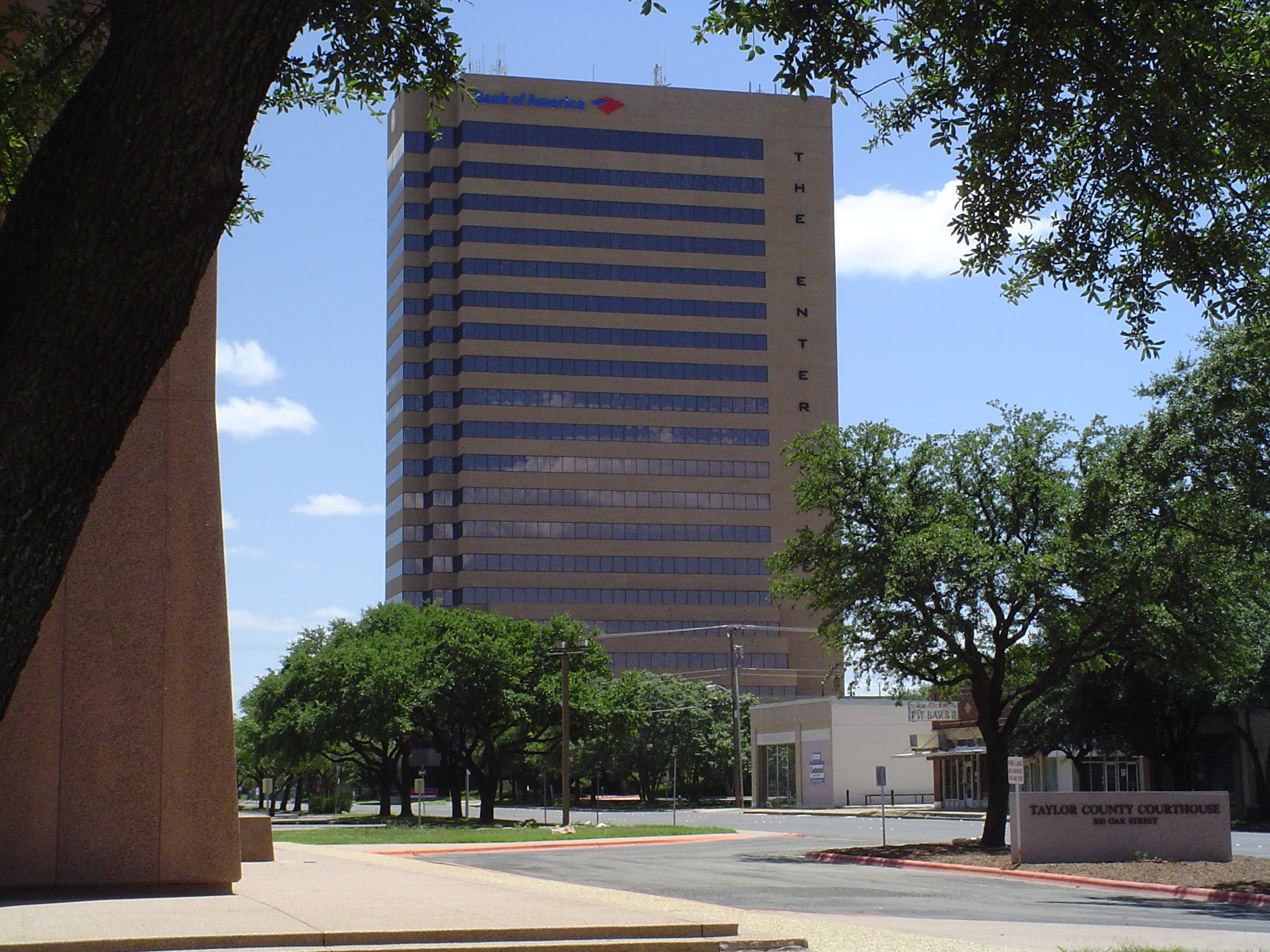 The 20-story Enterprise Tower is the tallest building in West Central Texas. According to it's also the 5th-tallest building in Texas west of the I-35 corridor. Only four other buildings (one in Amarillo, two in Midland, and one in El Paso) are taller in structural height. The Metro Tower in Lubbock is 10 feet shorter. Enterprise is home to a variety of businesses, including Bank of America, Abilene's Fox t.v. affiliate, and Genesis Network Solutions, a high-end IT services company with clients across the globe.